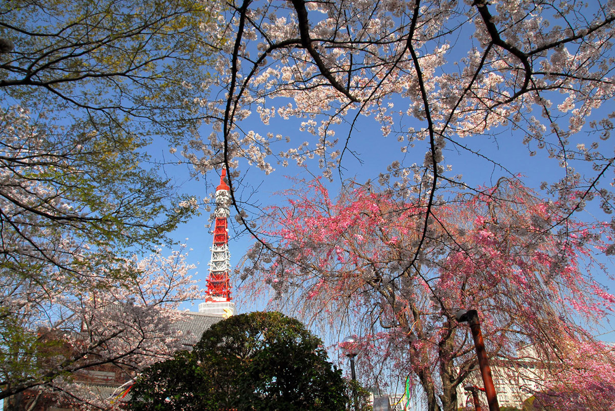 Zōjō-ji, "Sakura"(cherry blossom) in the garden